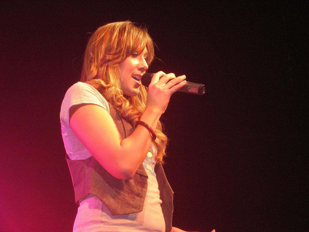 Colbie Caillat performing in Birmingham, Alabama.